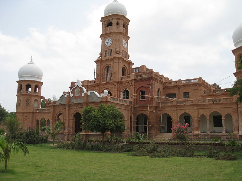 The old building of Sadiq Egerton College Bahawalpur where college works from 1886 until 1951. The Building now hosted Sadiq Dane School.